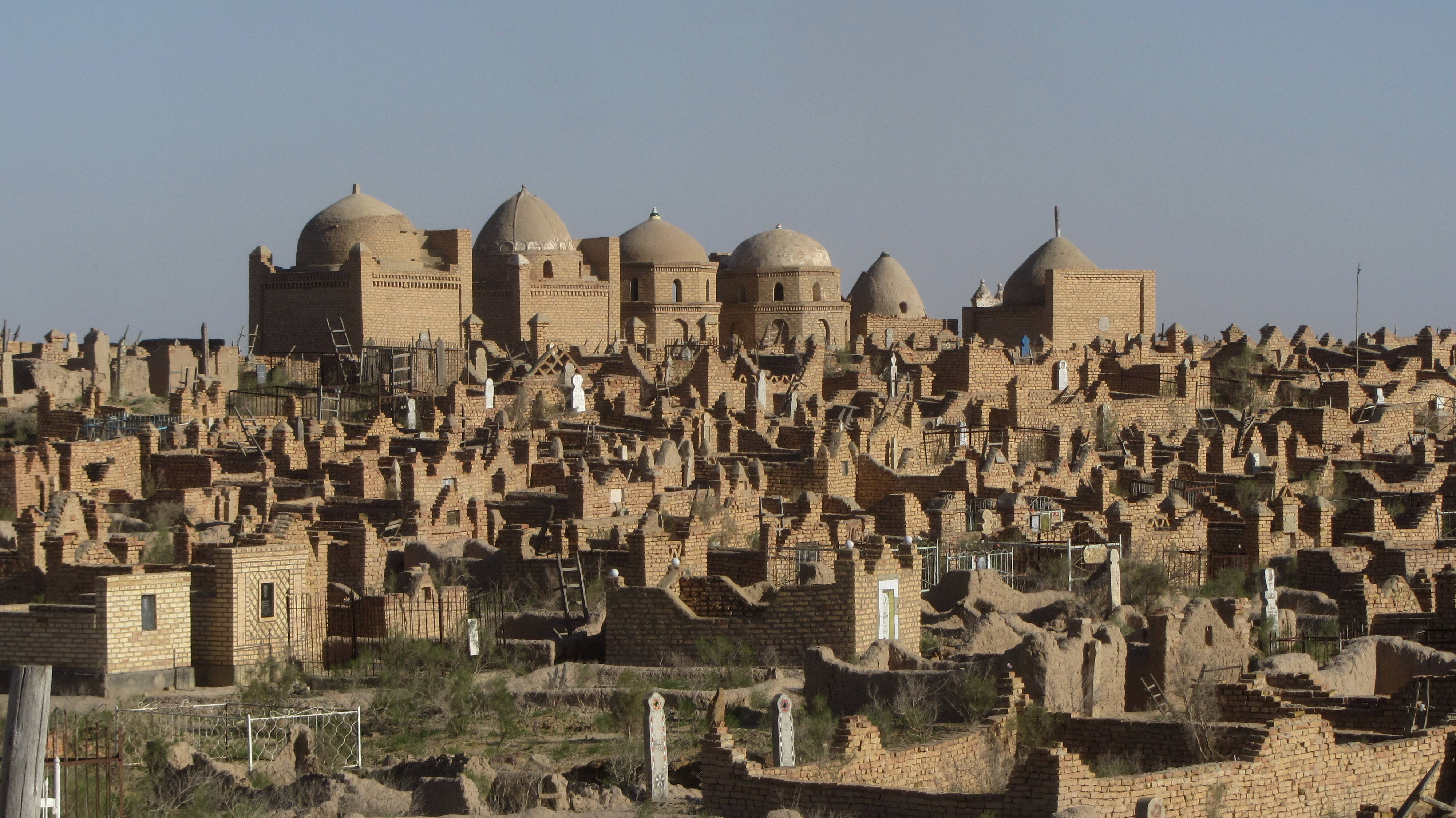 Necropolis of Mizdakhan